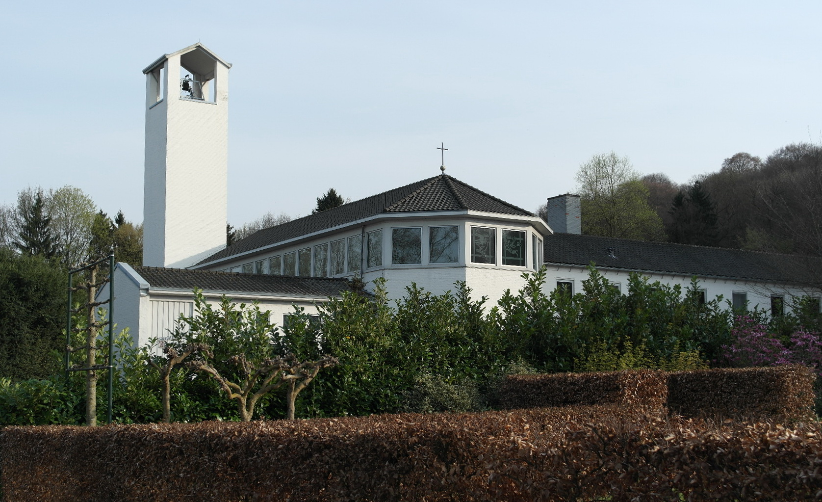 Valkenburg, Limburg, the Netherlands. View of Regina Pacis Priory on Oud Valkenburgerweg.